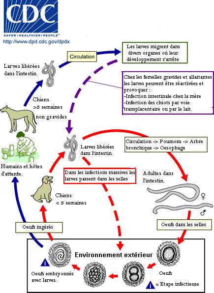 Toxocara caniNematoda Toxocaridae Toxocara_canis_LifeCycle(French_version).GIF Traduction en français de l’image suivante : Toxocara_canis_LifeCycle.GIF Toxocara canis accomplishes its life cycle in dogs, with humans acquiring the infection as accidental hosts. Following ingestion by dogs, the infective eggs yield larvae that penetrate the gut wall and migrate into various tissues, where they encyst if the dog is older than 5 weeks. In younger dogs, the larvae migrate through the lungs, bronchial tree, and esophagus; adult worms develop and oviposit in the small intestine. In the older dogs, the encysted stages are reactivated during pregnancy, and infect by the transplacental and transmammary routes the puppies, in whose small intestine adult worms become established. Thus, infective eggs are excreted by lactating bitches and puppies. Humans are paratenic hosts who become infected by ingesting infective eggs in contaminated soil. After ingestion, the eggs yield larvae that penetrate the intestinal wall and are carried by the circulation to a wide variety of tissues (liver, heart, lungs, brain, muscle, eyes). While the larvae do not undergo any further development in these sites, they can cause severe local reactions that are the basis of toxocariasis.